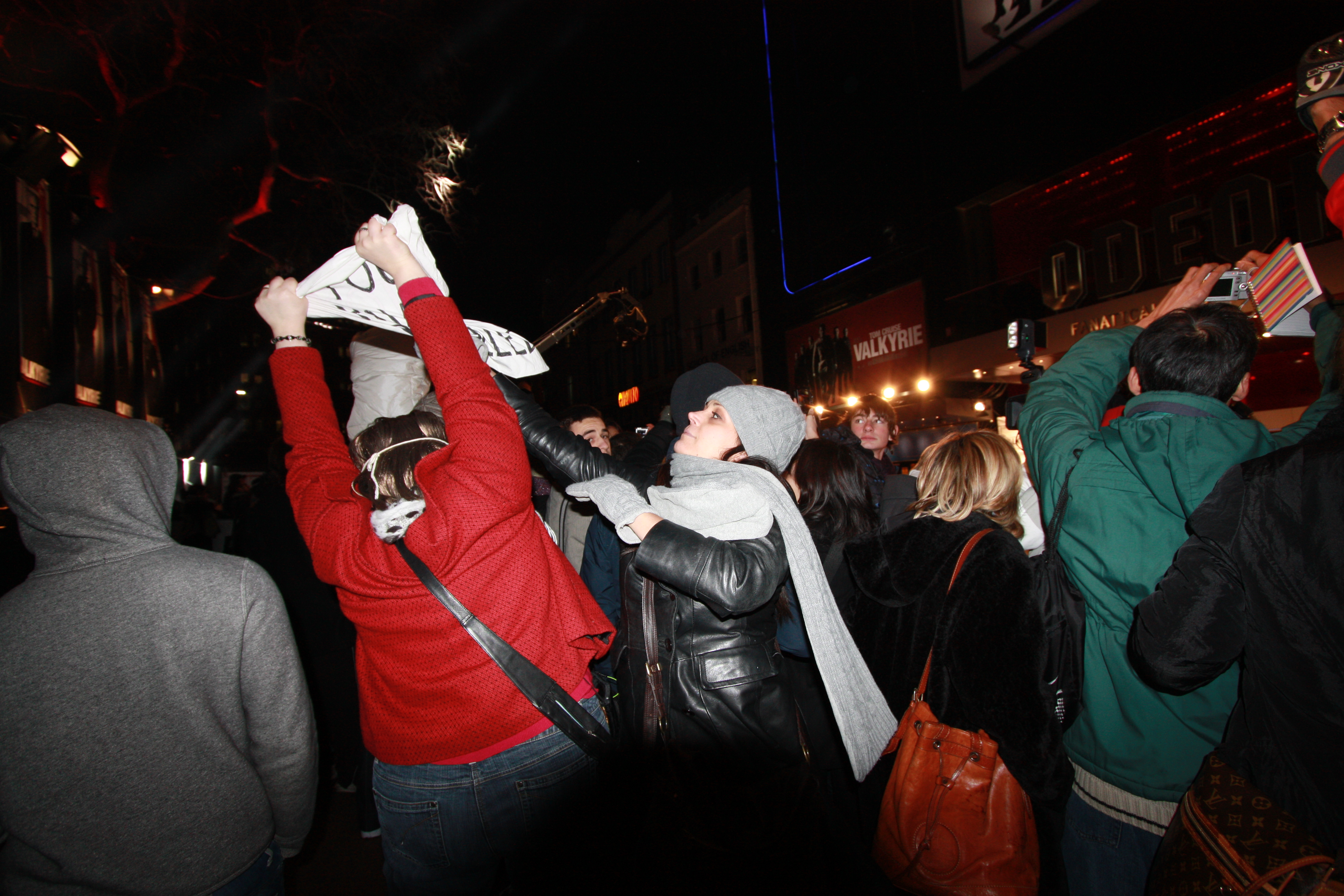 A Tom Cruise supporter (center, in grey hat) scuffles with a protester (left, in red jacket) at the London premiere of Valkyrie at Odeon Leicester Square. Video of the scuffle can be seen here: Protesters at Tom's premiere. The MSN/Splash News video camera and camera light filming the scuffle is visible in the photo, next to the left elbow of the man in the green jacket.